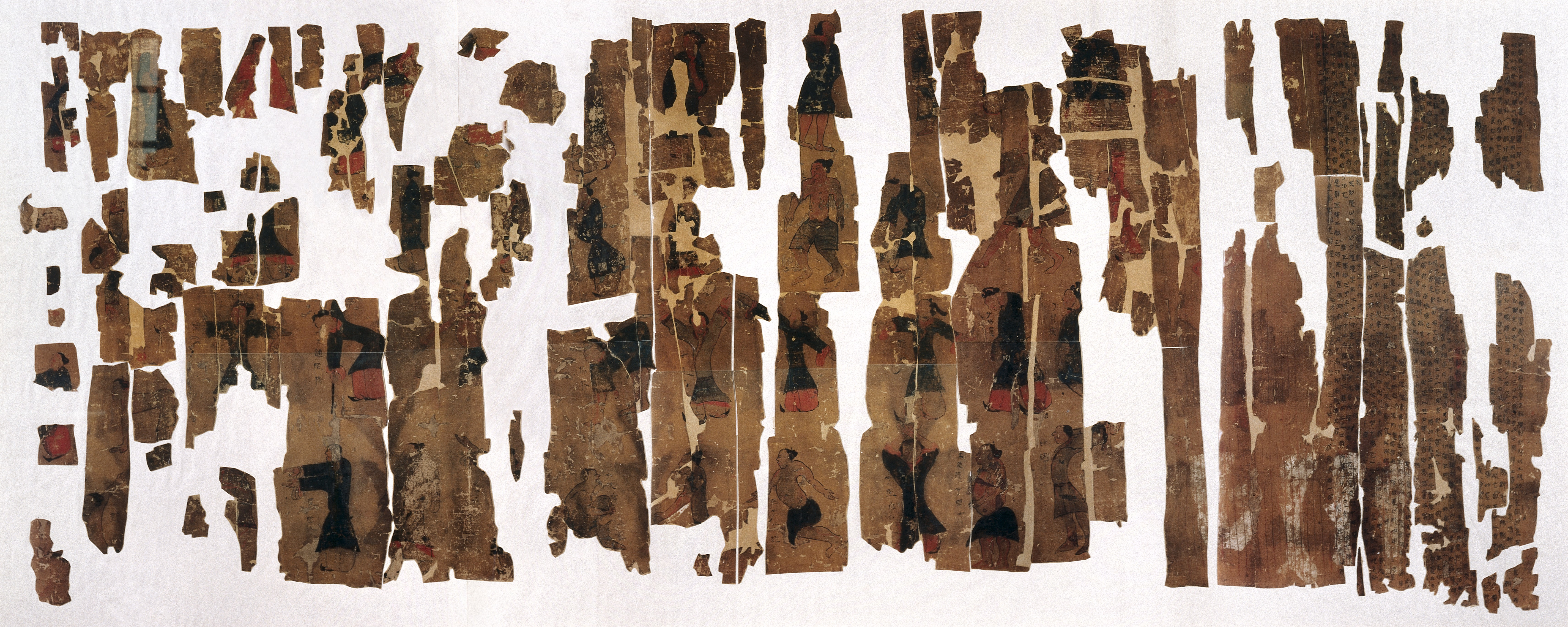 Daoyin tu - chart for leading and guiding people in exercise for improving health and treatment of pain, containing animal postures such as bear walk. The images originally come from a 'Guiding and Pulling Chart' excavated from the Mawangdui Tomb 3 (sealed in 168BC) in the former kingdom of Changsha. Wellcome Images Keywords: Tai Chi; Chinese; Asian Continental Ancestry Group; Delivery of Health Care; Chinese Medicine; China; Healthcare; Exercise; Posture